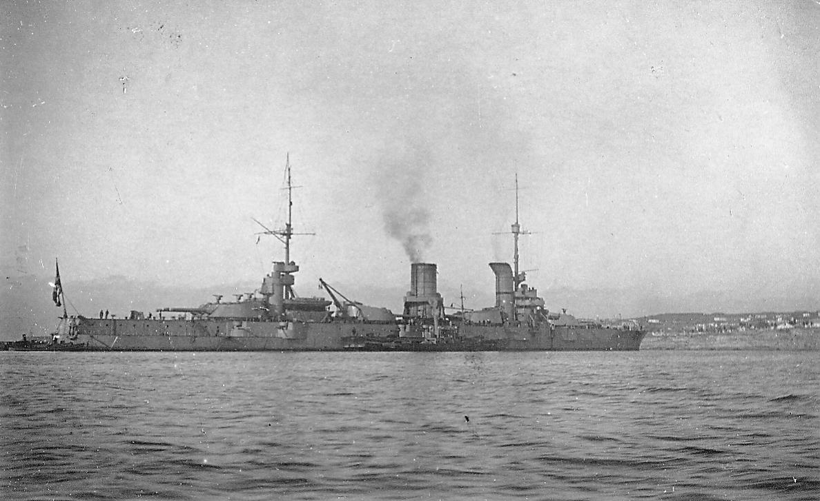 Soviet battleship Parizhskaia Kommuna, 1931.